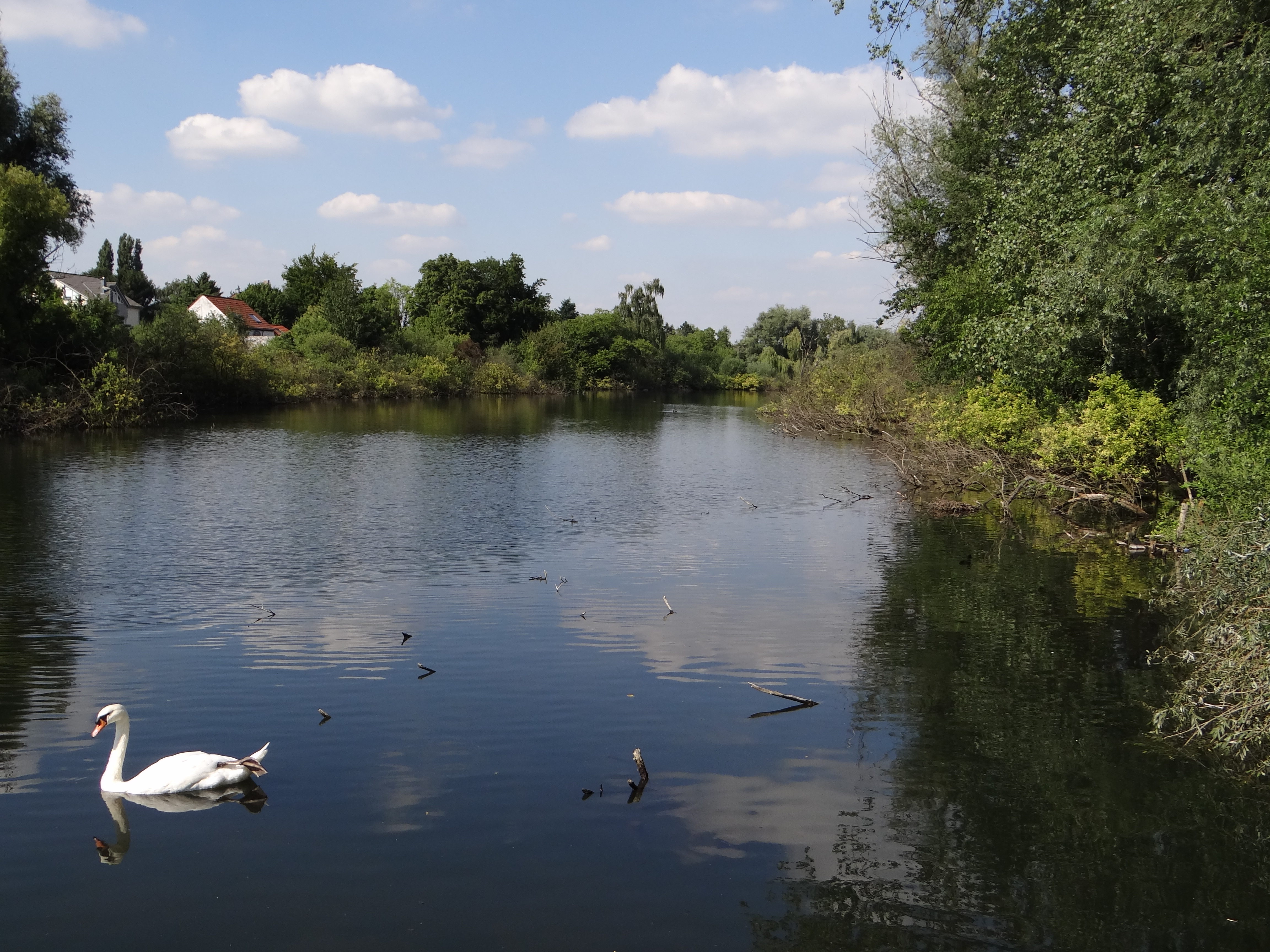 "Niepkuhlen" in the "Riethbenden" nature reserve in Krefeld, Germany